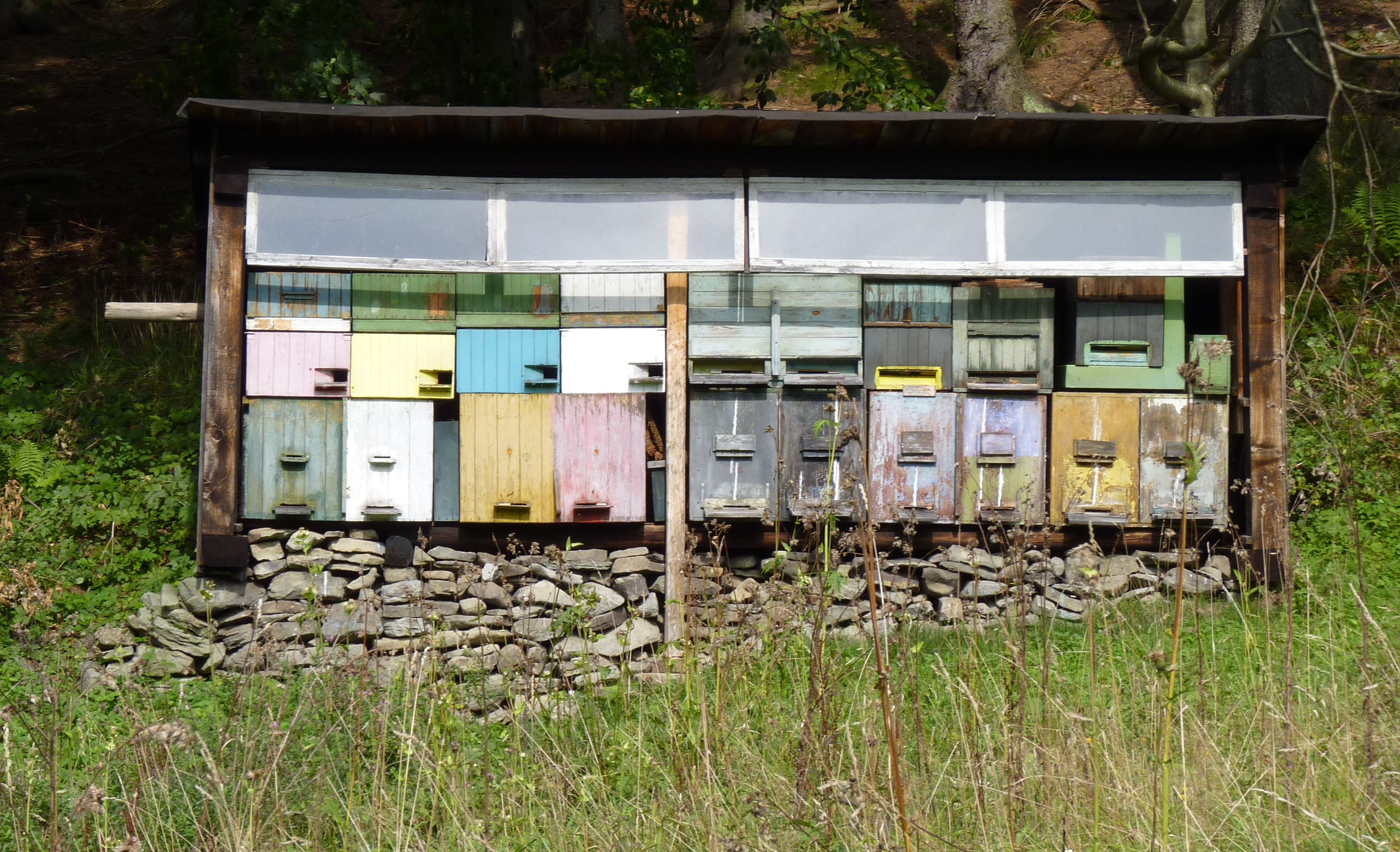 Morávka, beehive. Frýdek-Místek District, Moravian-Silesian Region, Czech Republic